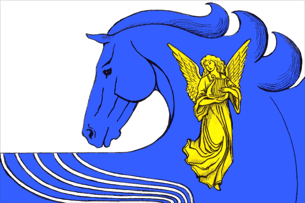 Flag of Siversky, Leningrad Region, Russia